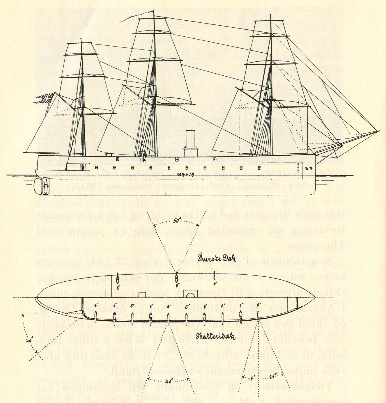 Plan of Danish Armoured Frigate Danmark, showing disposition of guns, and cutout in armour to allow firing to the rear. The armour cutout was done in the 1867-68 refit.